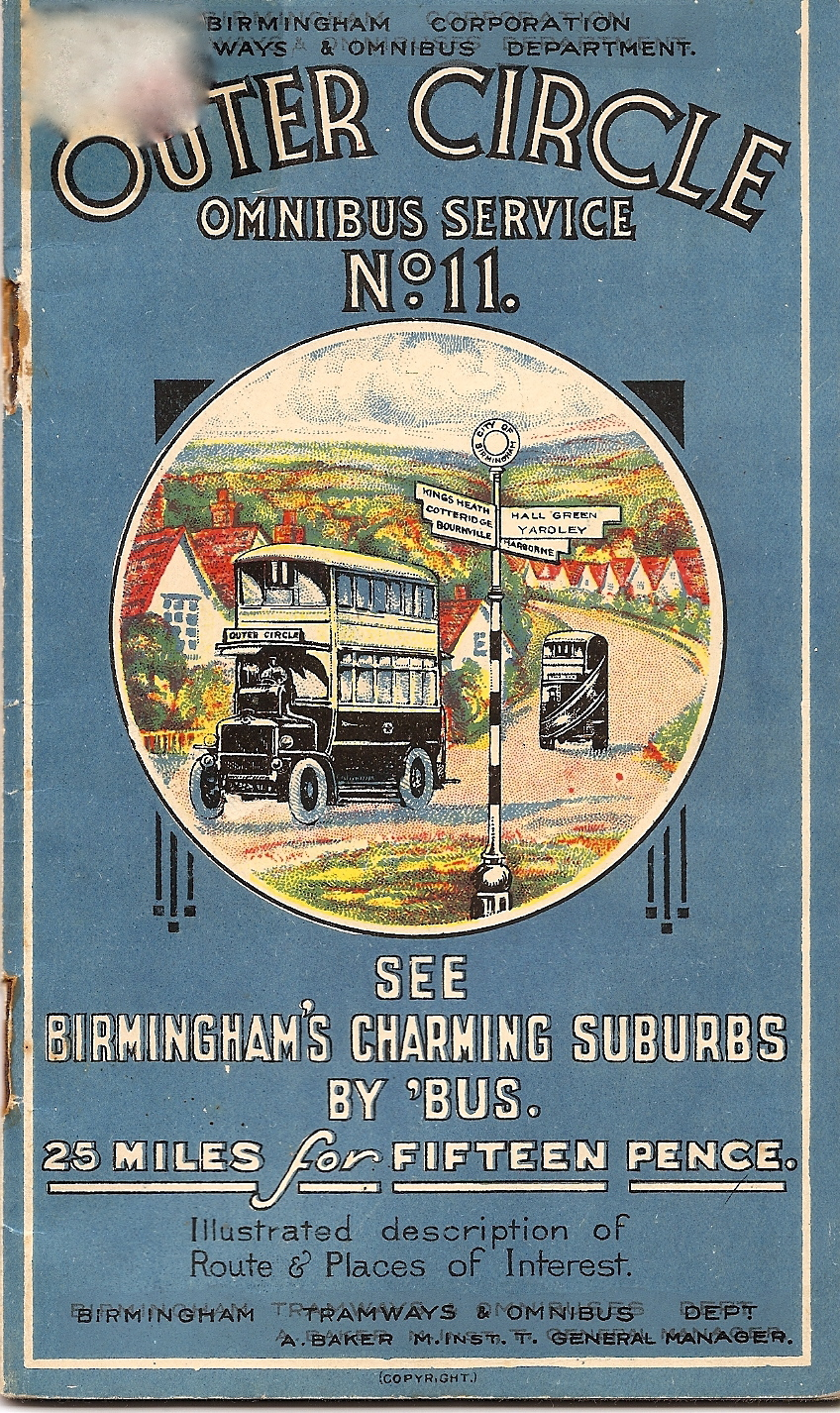 Guide brochure to the 'Outer Circle' bus route in Birmingham, England. "Birmingham Corporation Tramways and Omnibus" was the name used from 1928 until November 1937.)